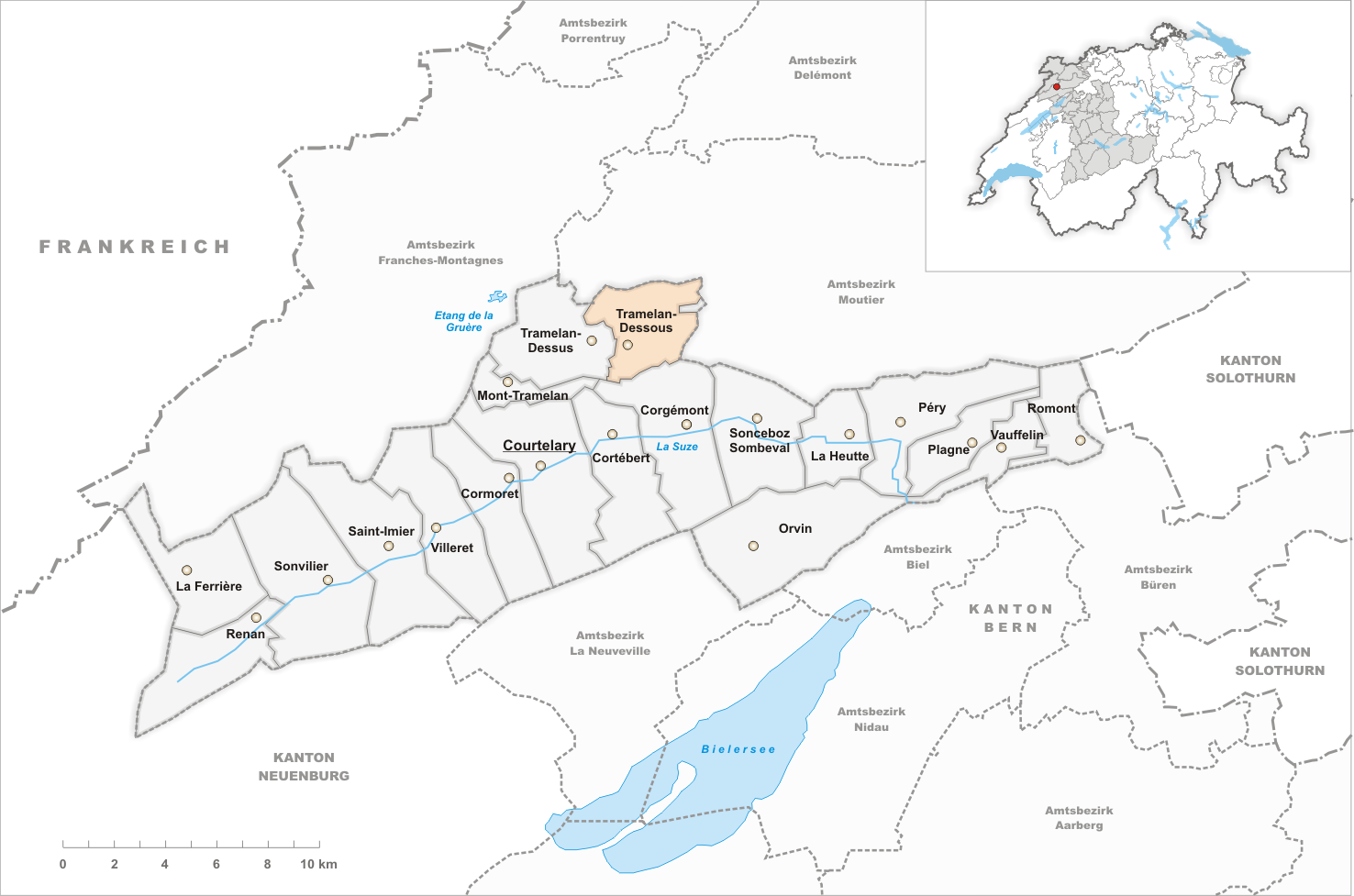 Municipality Tramelan-Dessous